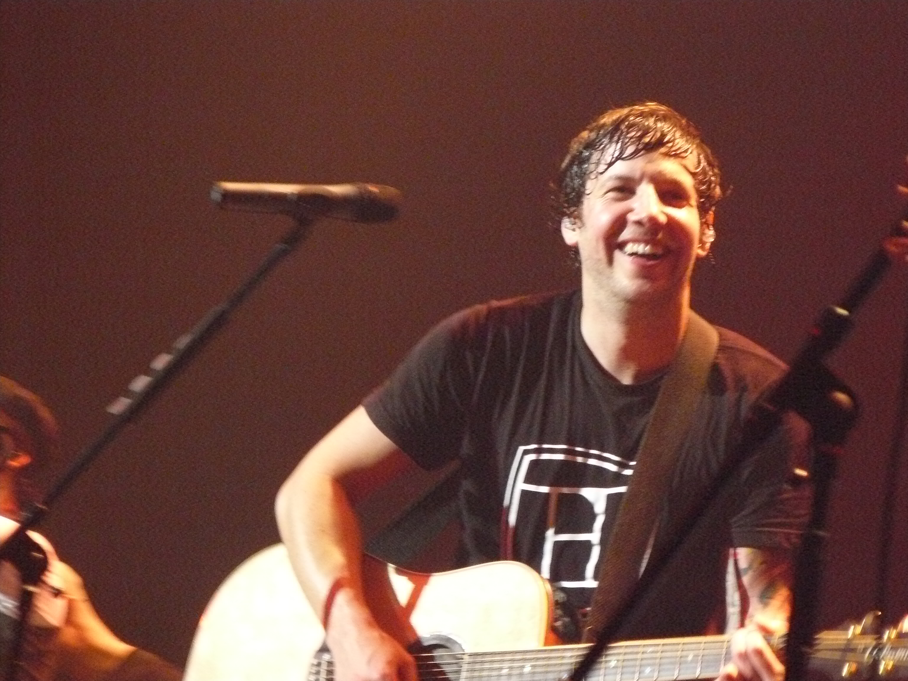 Pierre Bouvier of Simple Plan during the band's Tokyo show on May 27, 2008